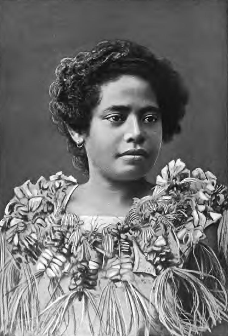 Young woman of Samoa 1902